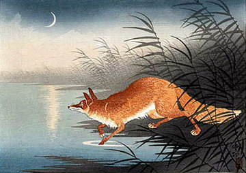 Fox by Ohara Koson